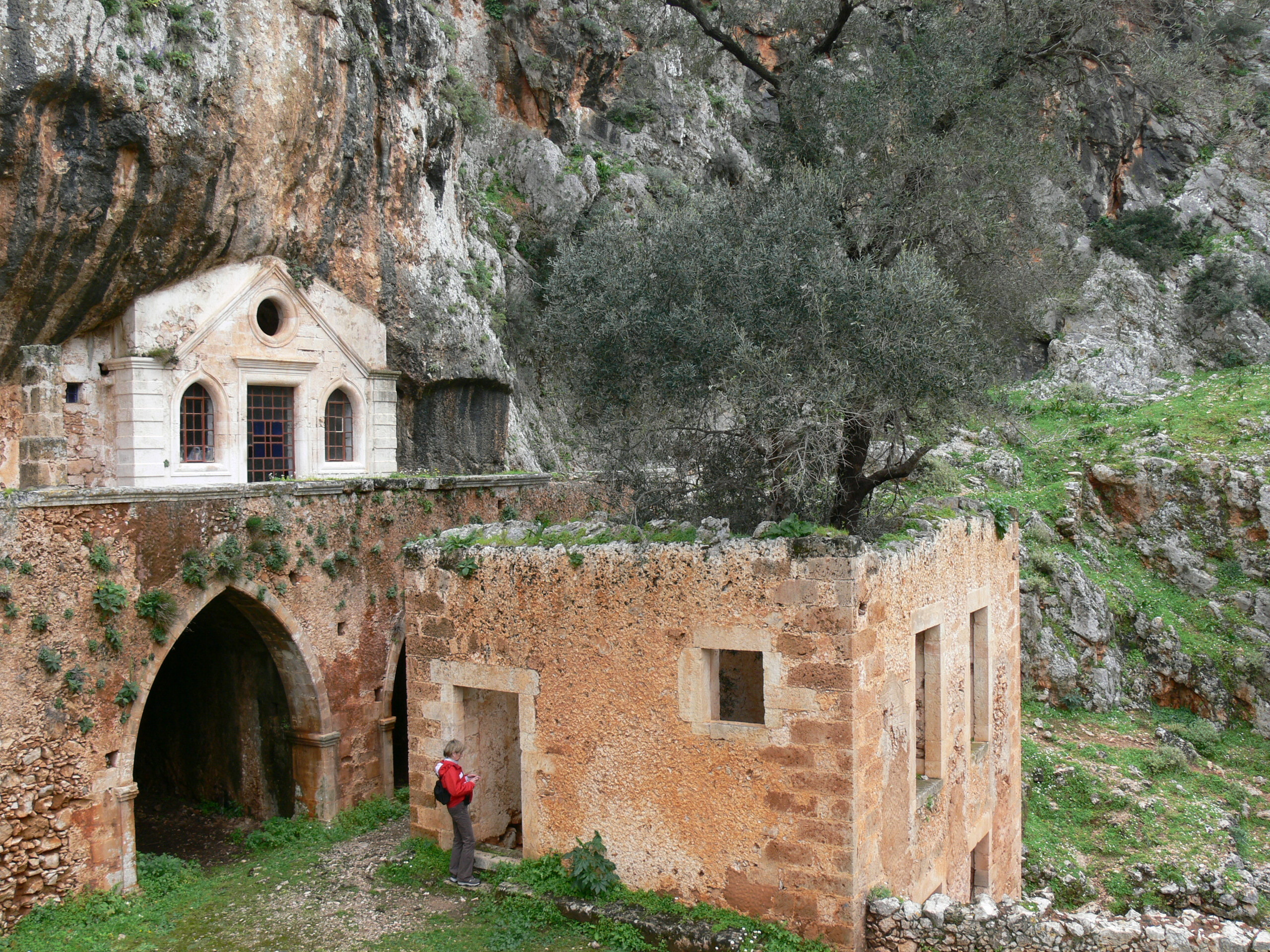 Katholikon monastery, Akrotiri (Crete). Church and monastery ruins with olive tree growing out of it.